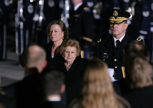 Former first lady Betty Ford and her daughter, Susan Ford Bales are escorted by Major General Guy Swan III upon the arrival of the casket of former President Gerald R. Ford to Andrews Air Force Base, Md., Saturday evening, Dec. 30, 2006, for the State Funeral ceremonies at the U.S. Capitol. White House photo by Shealah Craighead